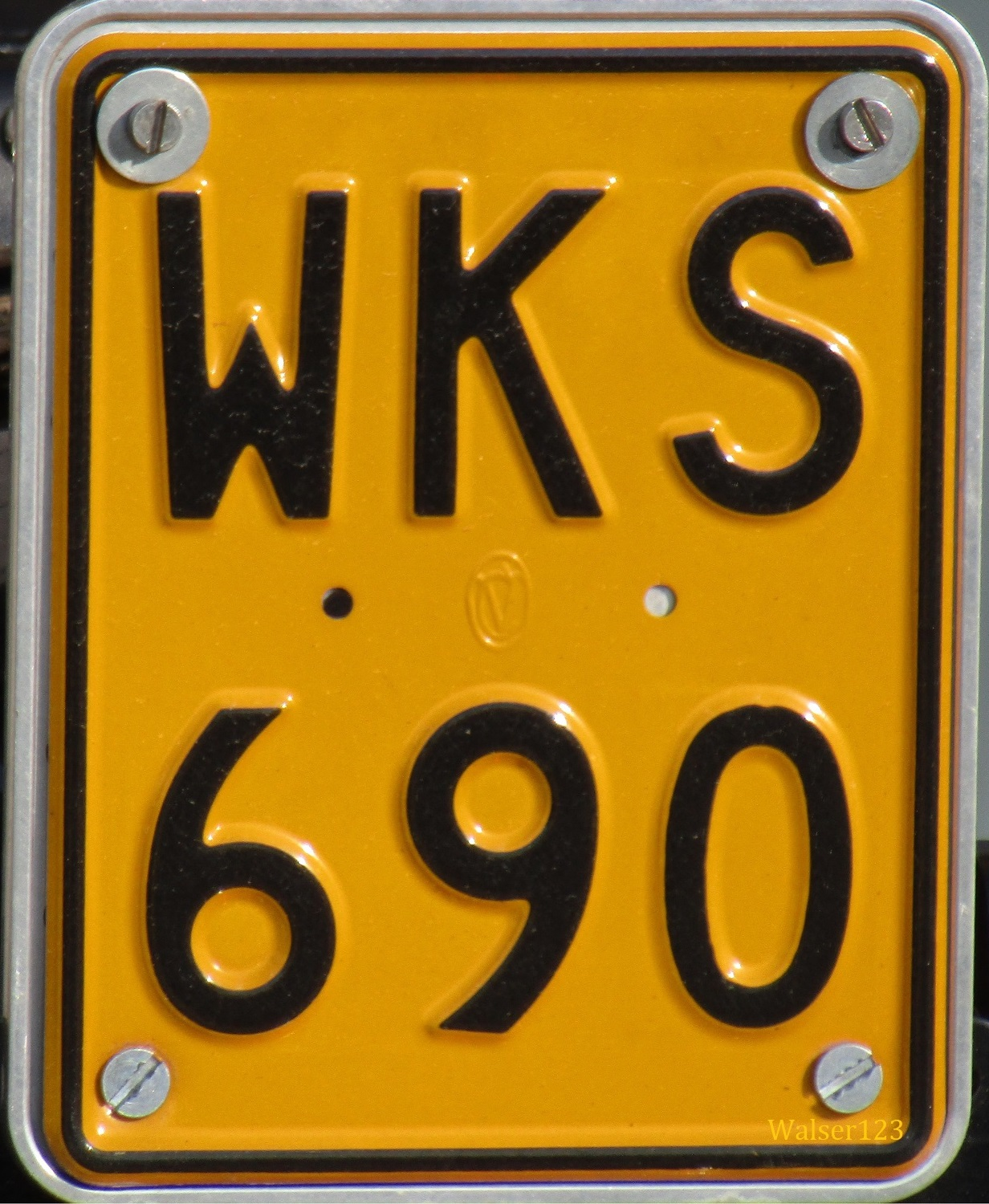 Belgian motorcycle plate 1965-2010 WKS-690